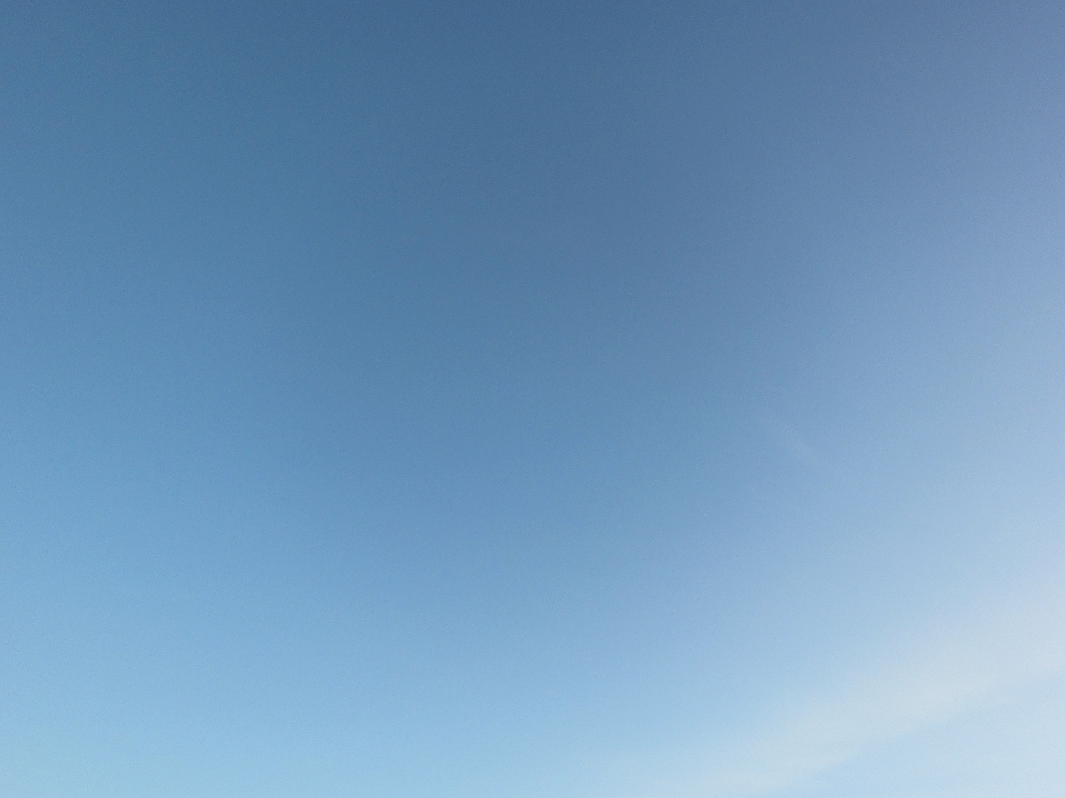 Blue sky in Laboe